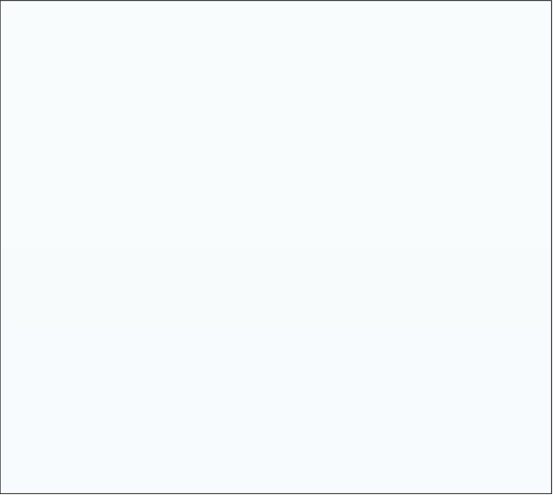 skali intensywności - prezentacja 2